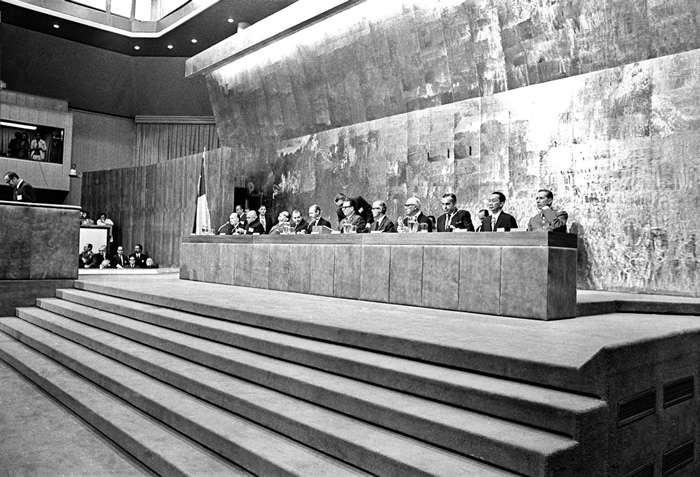 Third session of the Conference (UNCTAD III), held in Santiago, Chile (13 April - 21 May 1972)